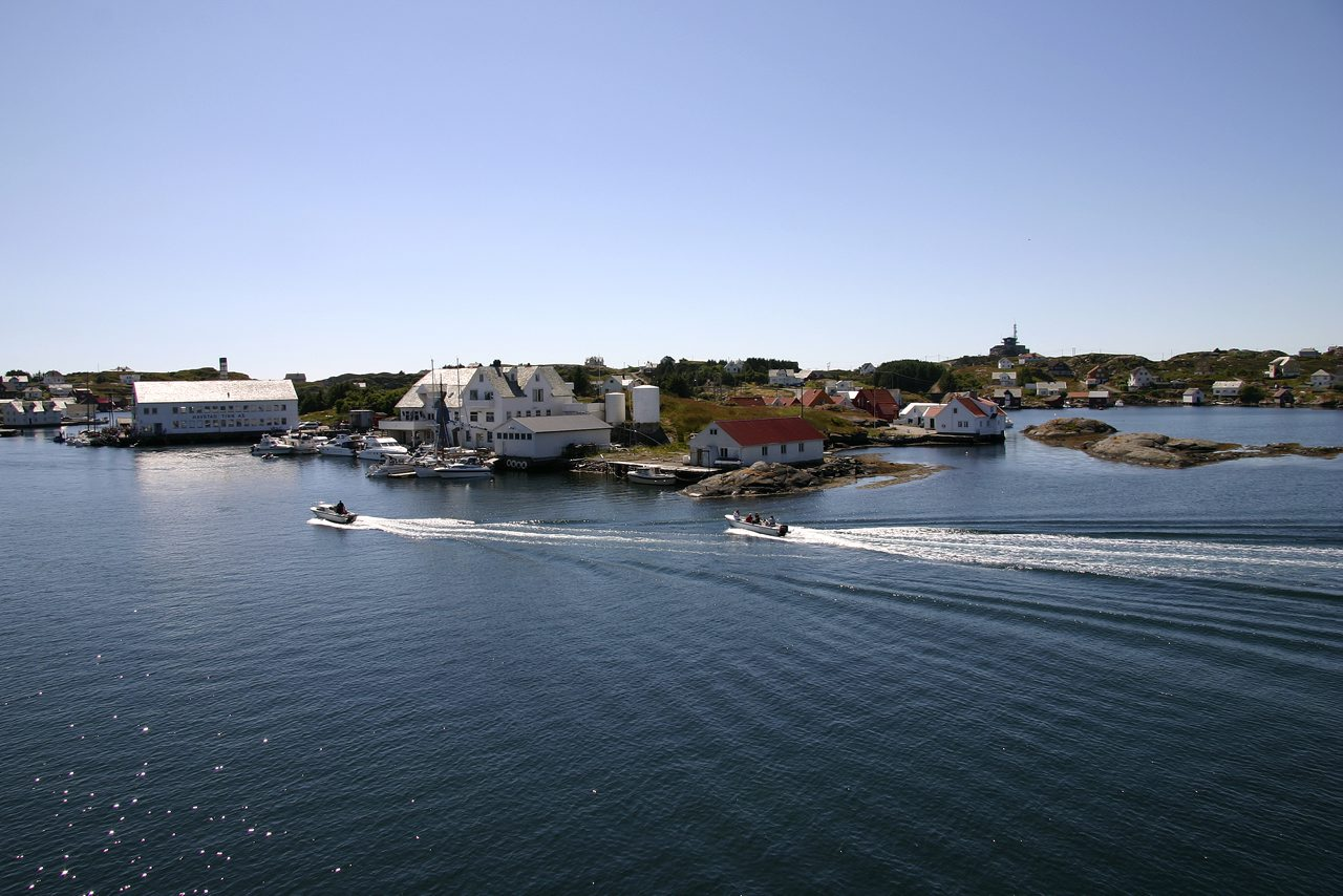 Kræmmerholmen at Fedje, Hordaland - Norway